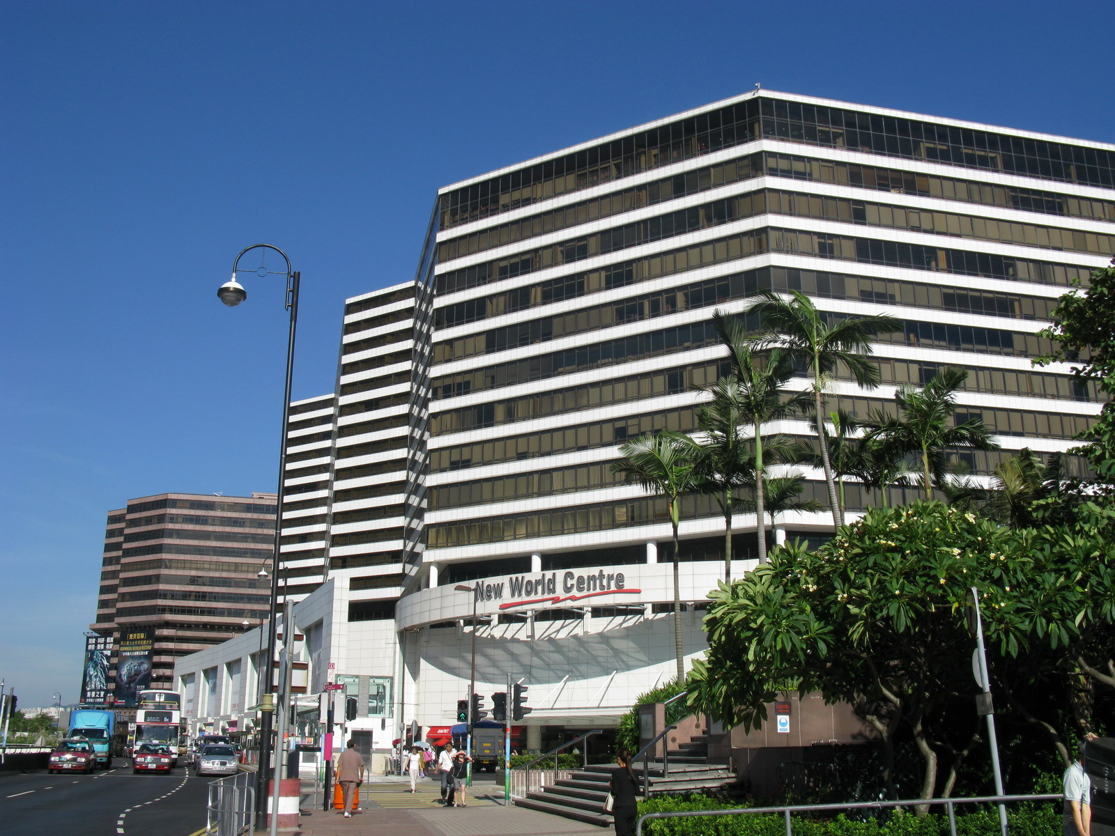 New World Centre